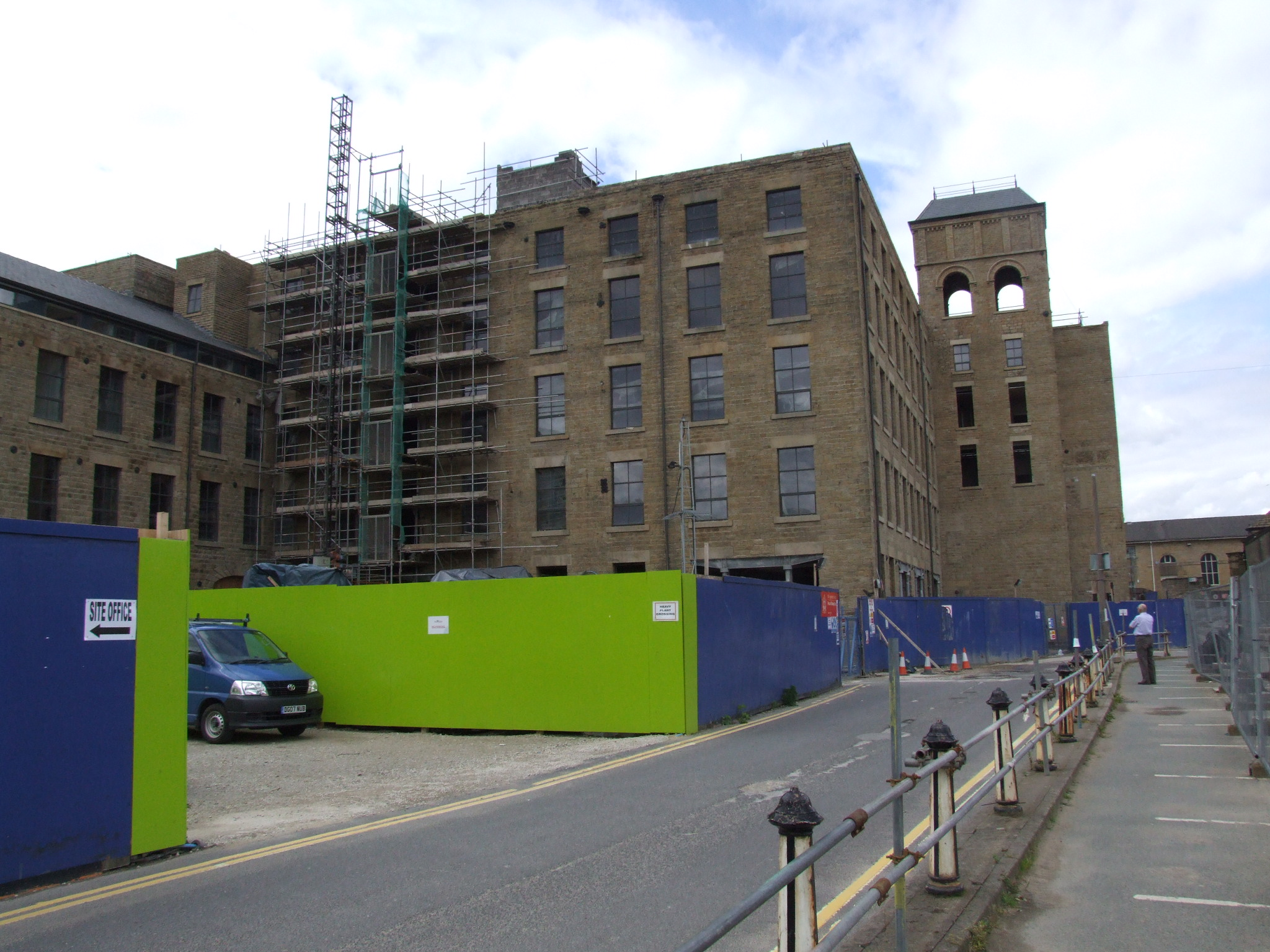 Glossop is a village in Derbyshire on the edge of Greater Manchester. Howard Town Mill